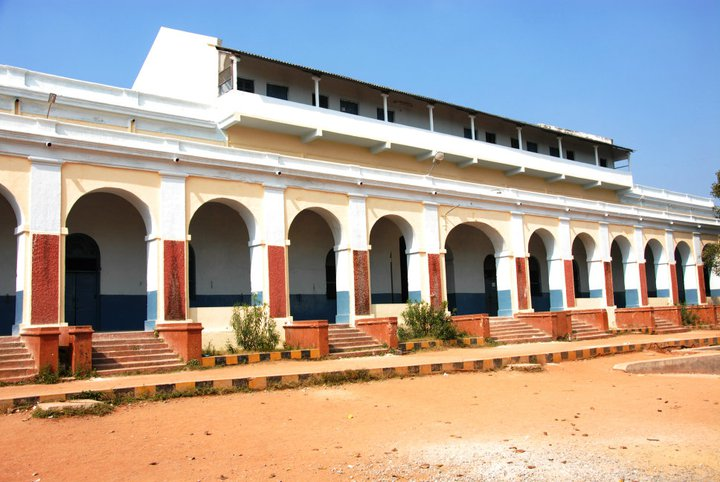 KVT building 2